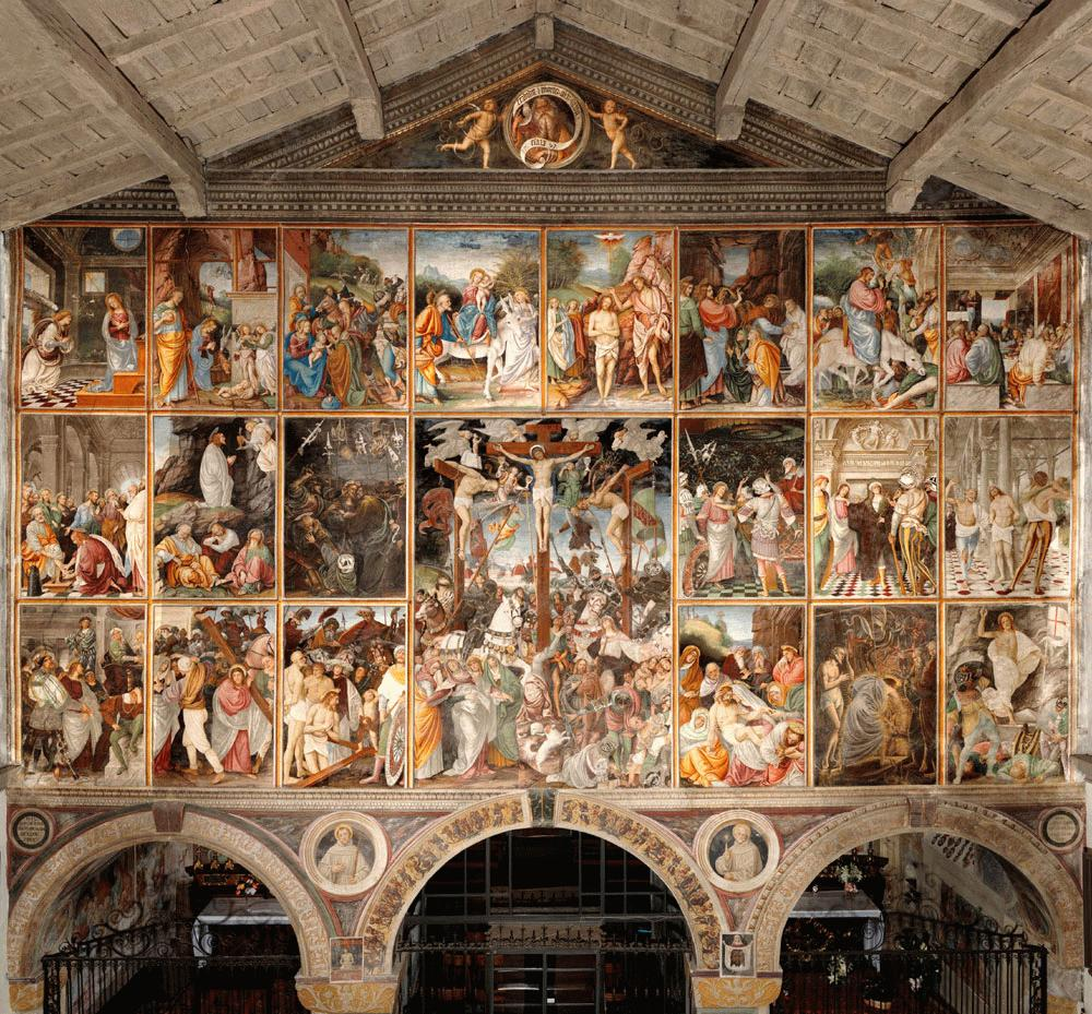 Gaudenzio Ferrari, Stories of life and passion of Christ, fresco, 1513, Church of Santa Maria delle Grazie, Varallo Sesia (VC), Italy. SCENES: Top row: Annunciation, Nativity, Visit of the Three Magi, Flight to Egypt, Baptism of Christ, Raising of Lazarus , Entry to Jerusalem, Last Supper. Middle row: Washing of feet, Agony in the Garden, Arrest of Christ, Trial before the Sanhedrin, Trial before Pilate, Flagellation. Bottom row: Ecce homo, Carrying the cross, Christ falls, Crucifixion, Deposition from the cross, Harrowing of Hell, Resurrection.